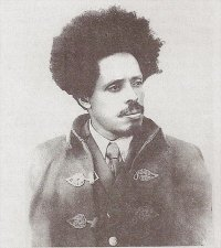 Ras Abebe Aregai, Ethiopian military leader and Prime Minister.